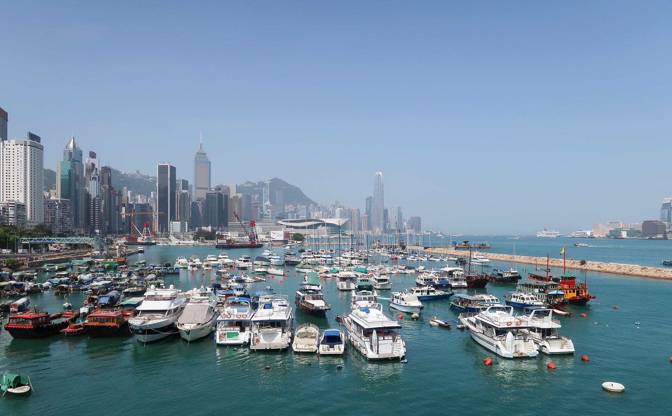 Causeway Bay Typhoon Shelter